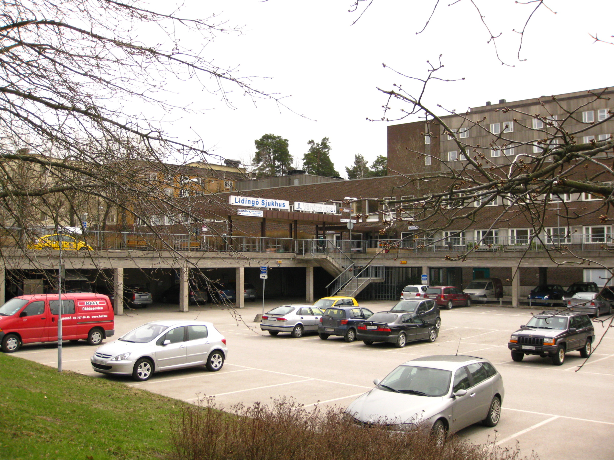 Lidingö hospital, Högsätra, Lidingö, east Stockholm, Sweden.